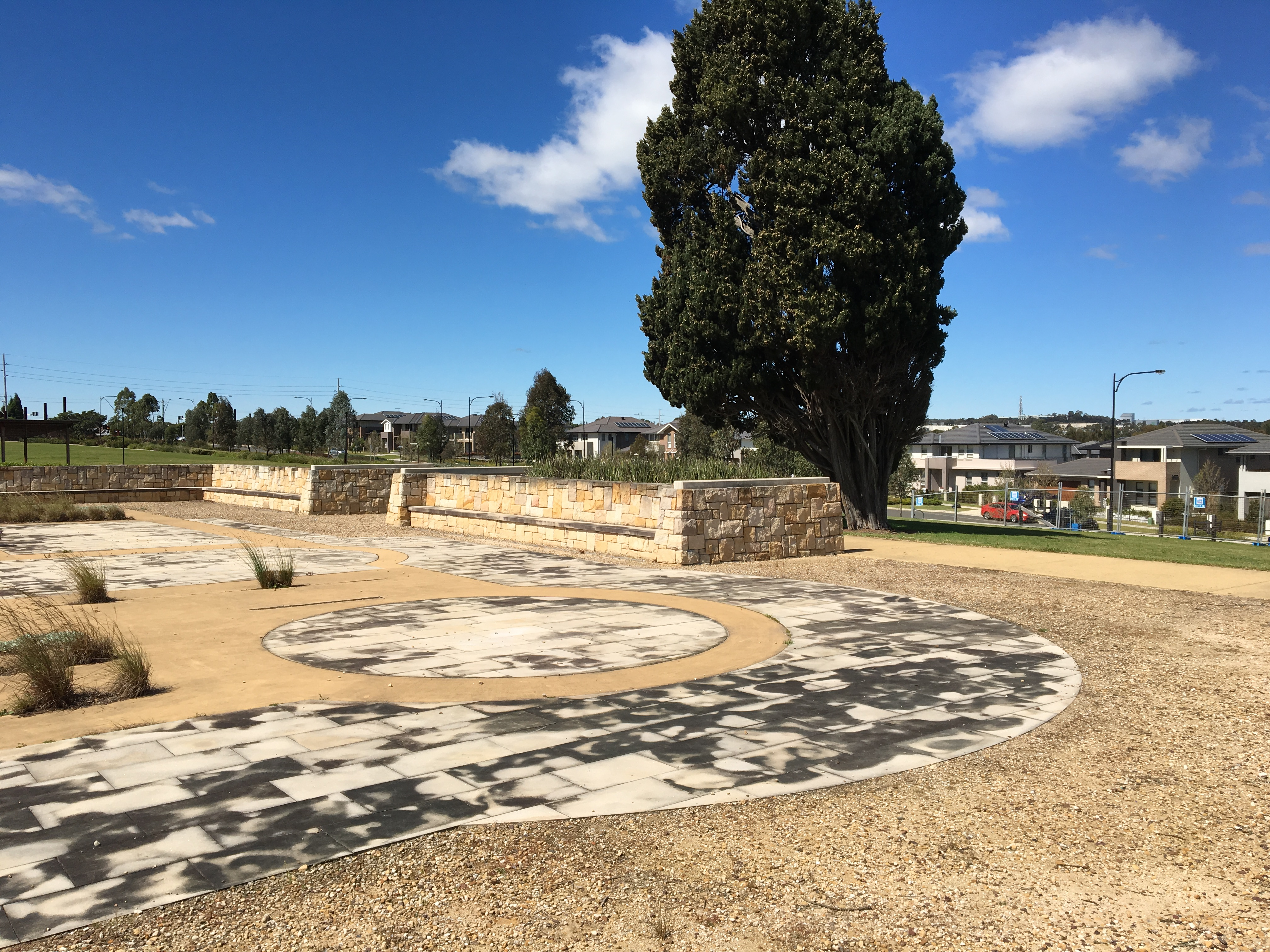 Site of Bungarribee Homestead in western Sydney, NSW, Australia.